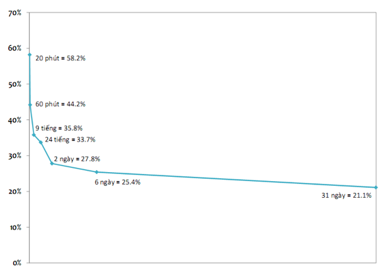 Decline of the brain's ability to remember